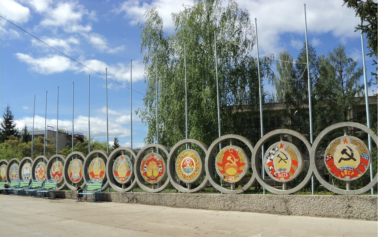 Young Pioneer Camp "Alye Parusa". Had the status of all-Union children's camp. Situated in a forest in the Stavropol district, near Tolyatti. After the dissolution in 1991, "Pioneer Organization", property confiscated. The territory of the former camp is divided into three zones. Sanatorium of the "AVTOVAZ", "Tolyatti Academy of management", "the Department of custody and guardianship, city of Tolyatti. The photo shows the coats of arms of the Soviet republics of the USSR.